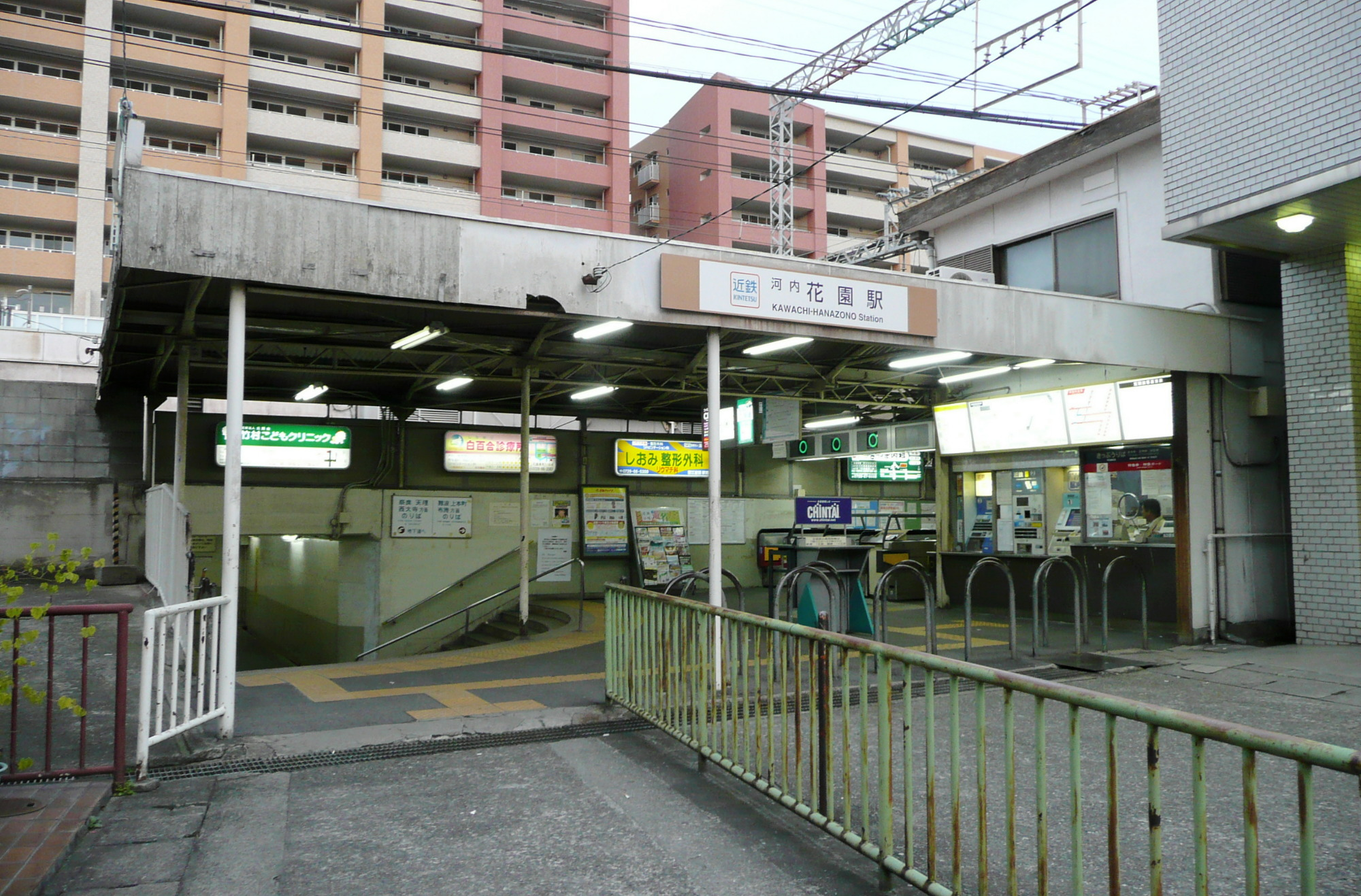 Kinki Nippon Railway,Ikoma Line,Kawachi-Hanazono Station south entrance. /地上駅舎時代の近鉄奈良線河内花園駅南口